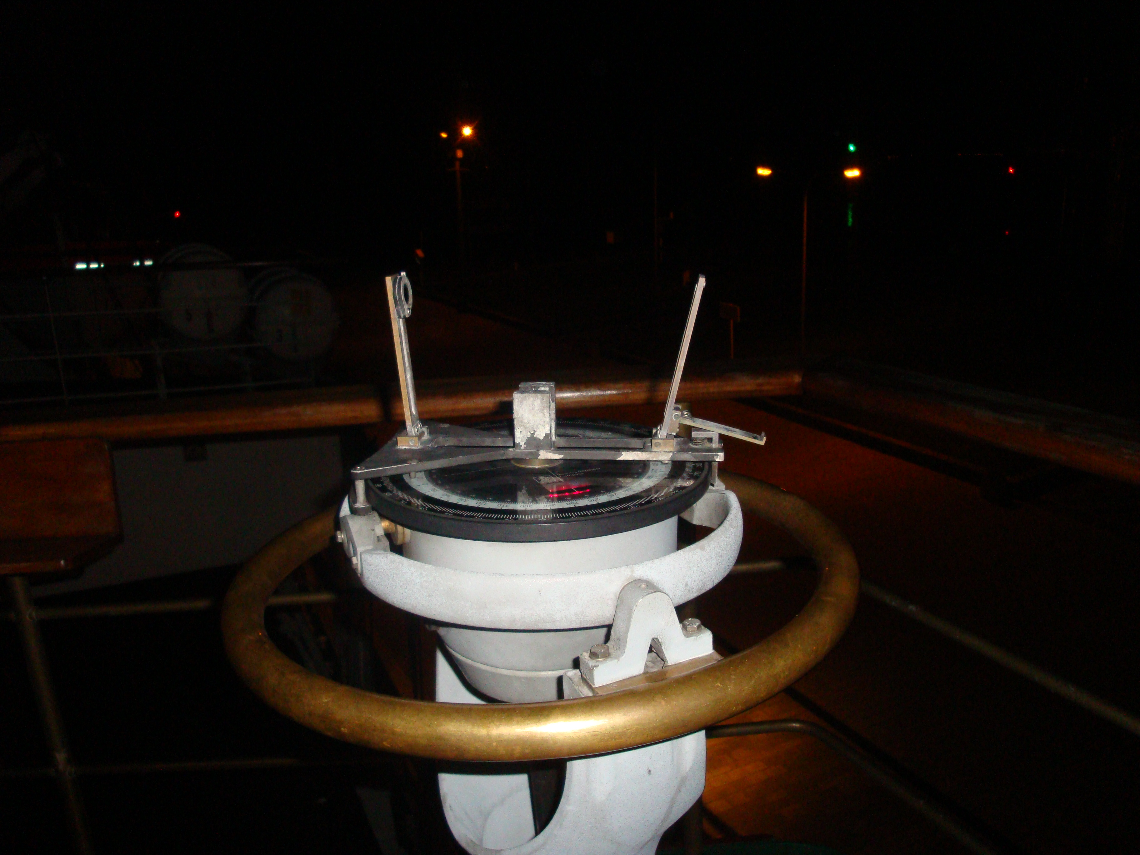 Azimuth circle on gyro repeater on bridge wing of Polish tall ship Dar Młodzieży